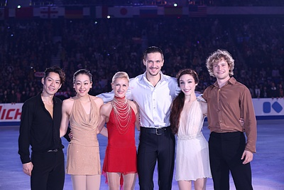 Gold Medalists at the exhibition gala of the NHK Trophy 2013.